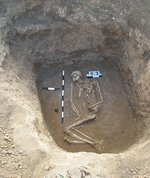 Yamna culture tomb in Volgograd oblast'